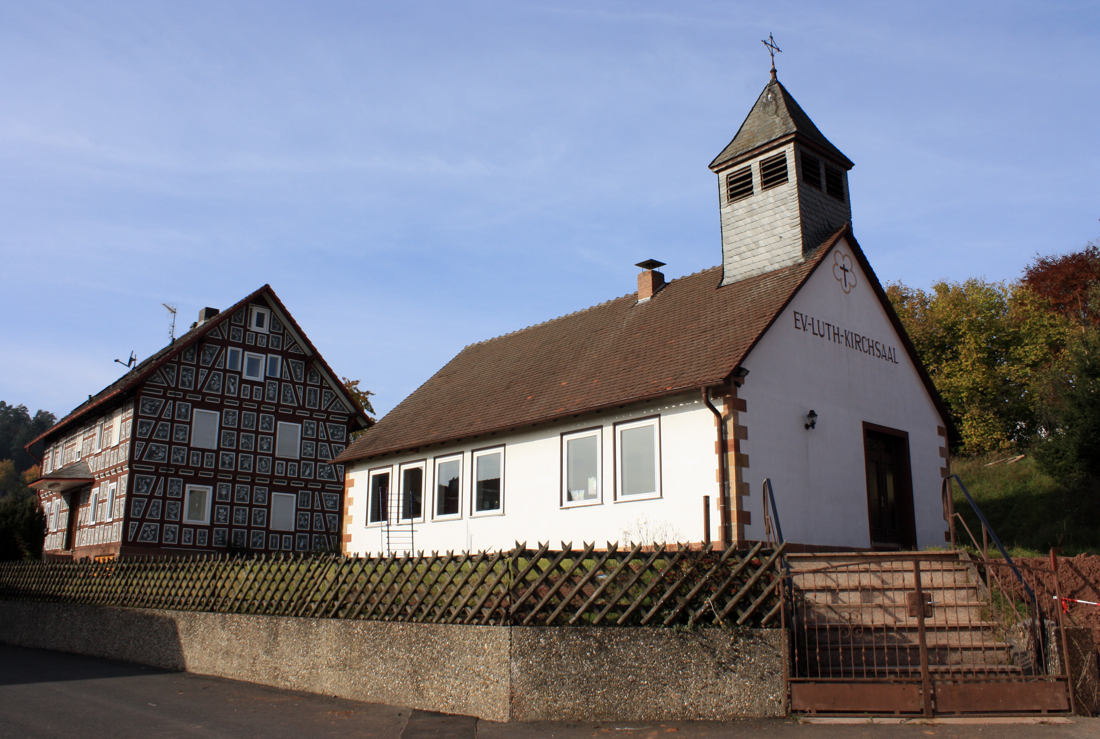 Church in Cölbe-Reddehausen and adjacent frame house